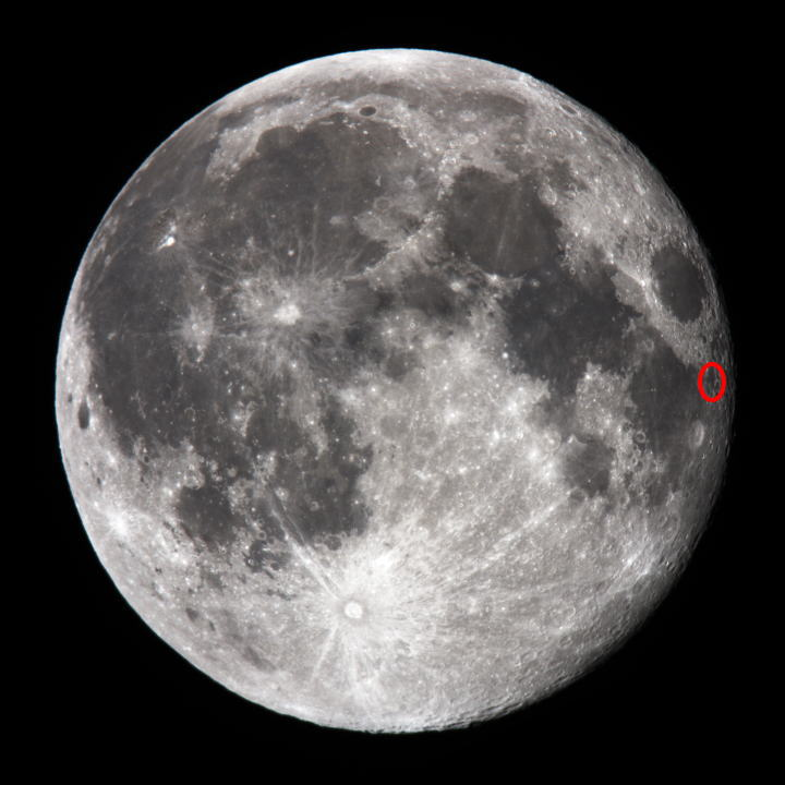 The Location of Mare Spumans, One of the Lunar Geographical Features.